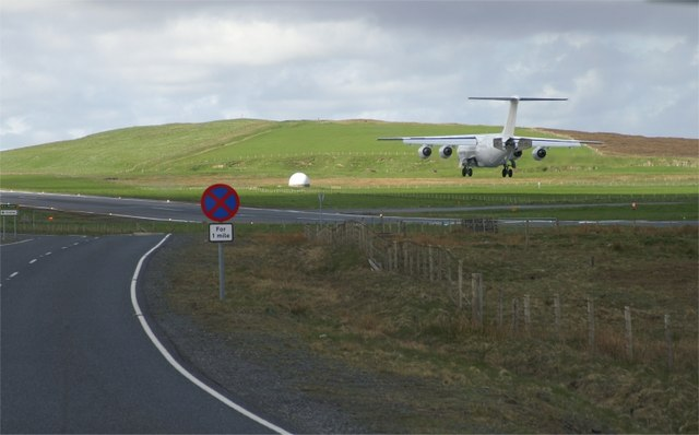 Scatsta Airfield A BAe-146 coming into land at Scatsta.